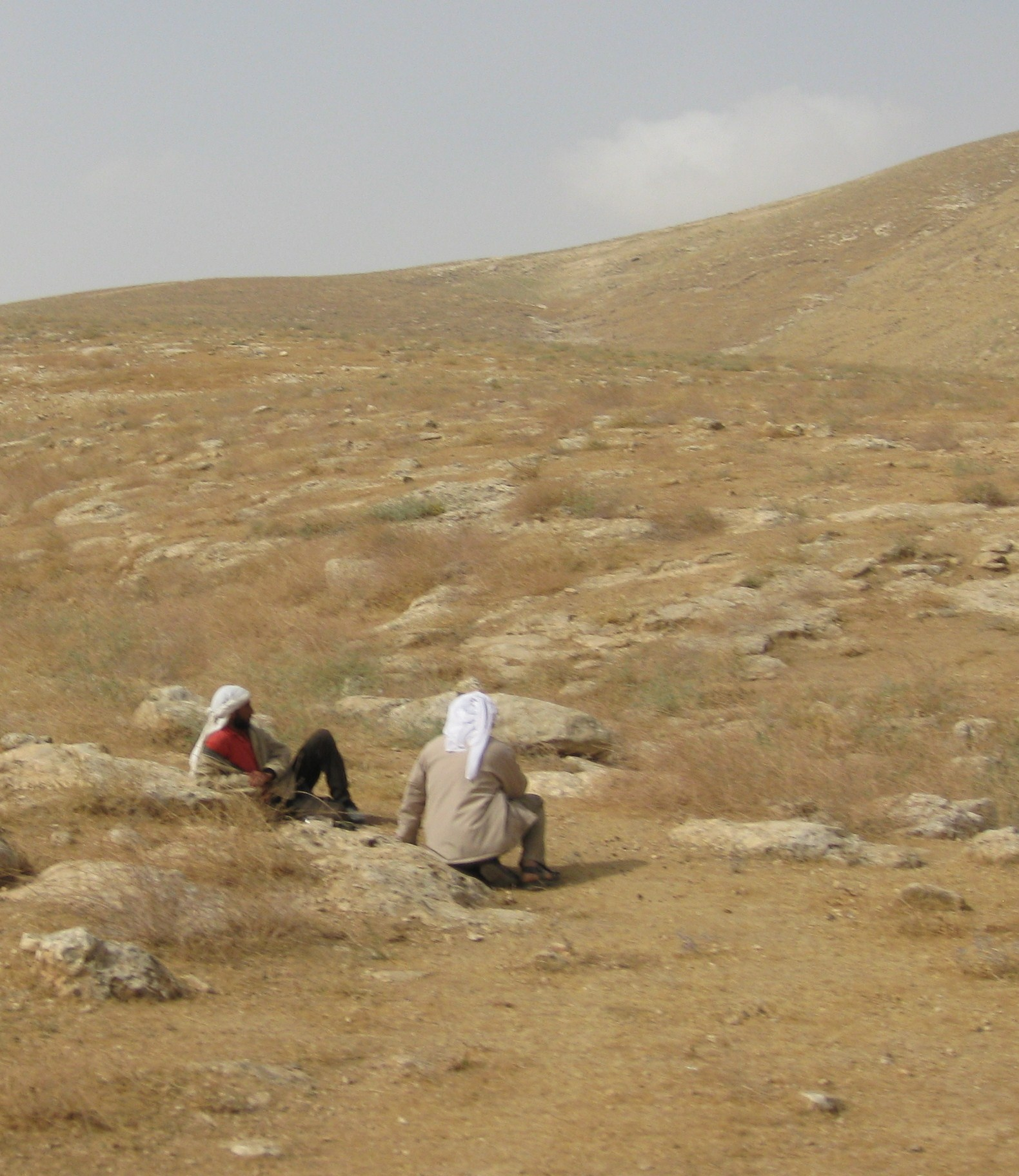 Judean Desert - bedouins